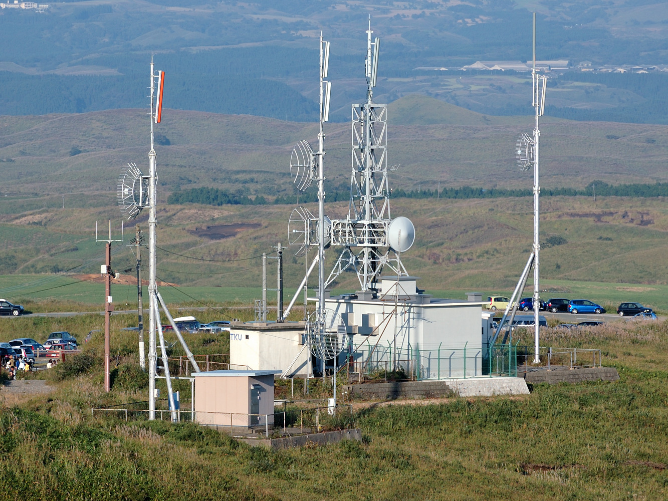 north_aso tv transposer(2008 Kumamoto Japan)